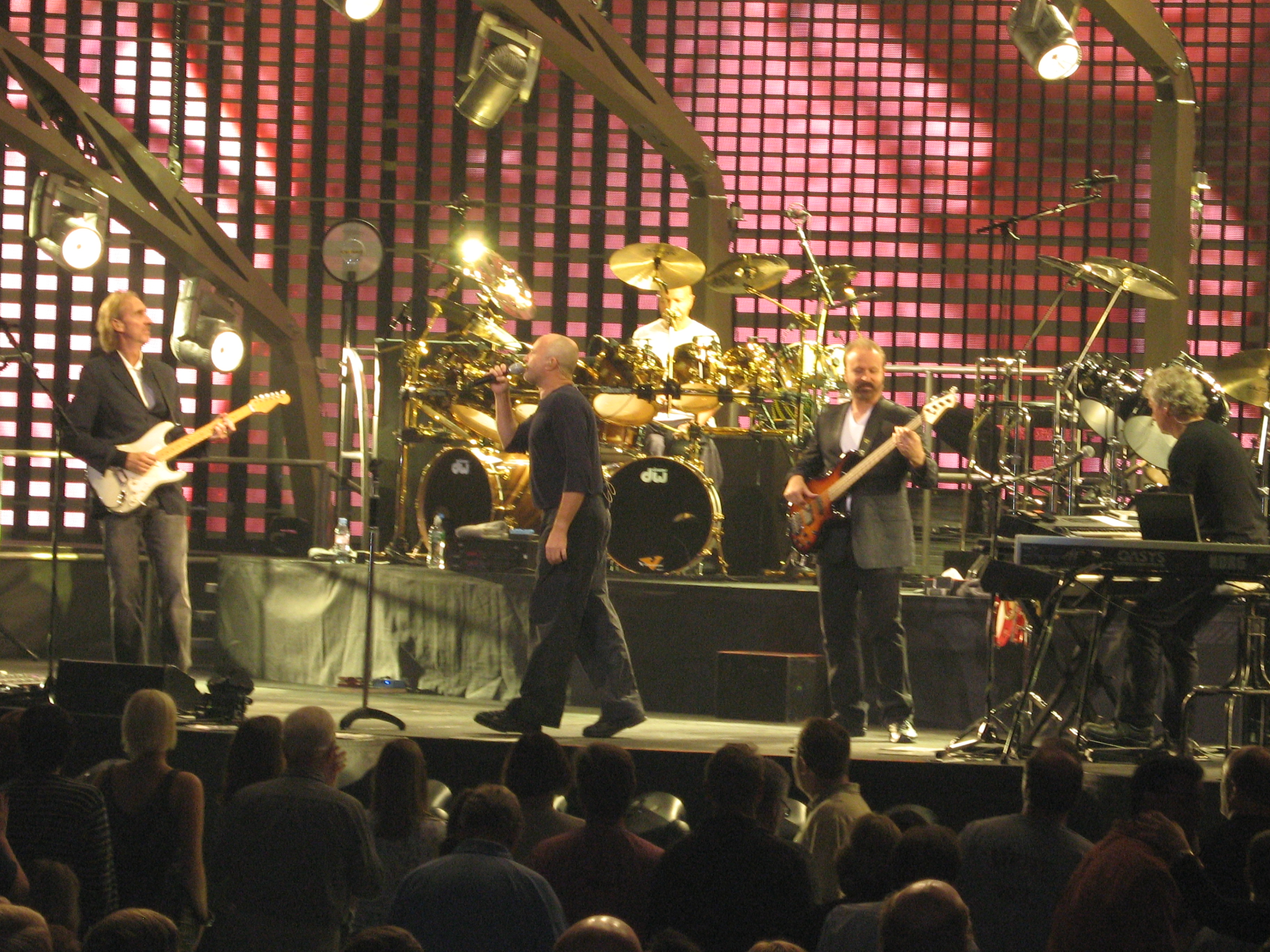 Genesis concert at the Verizon Center, Washington, D.C., USA. Performing "Throwing It All Away".